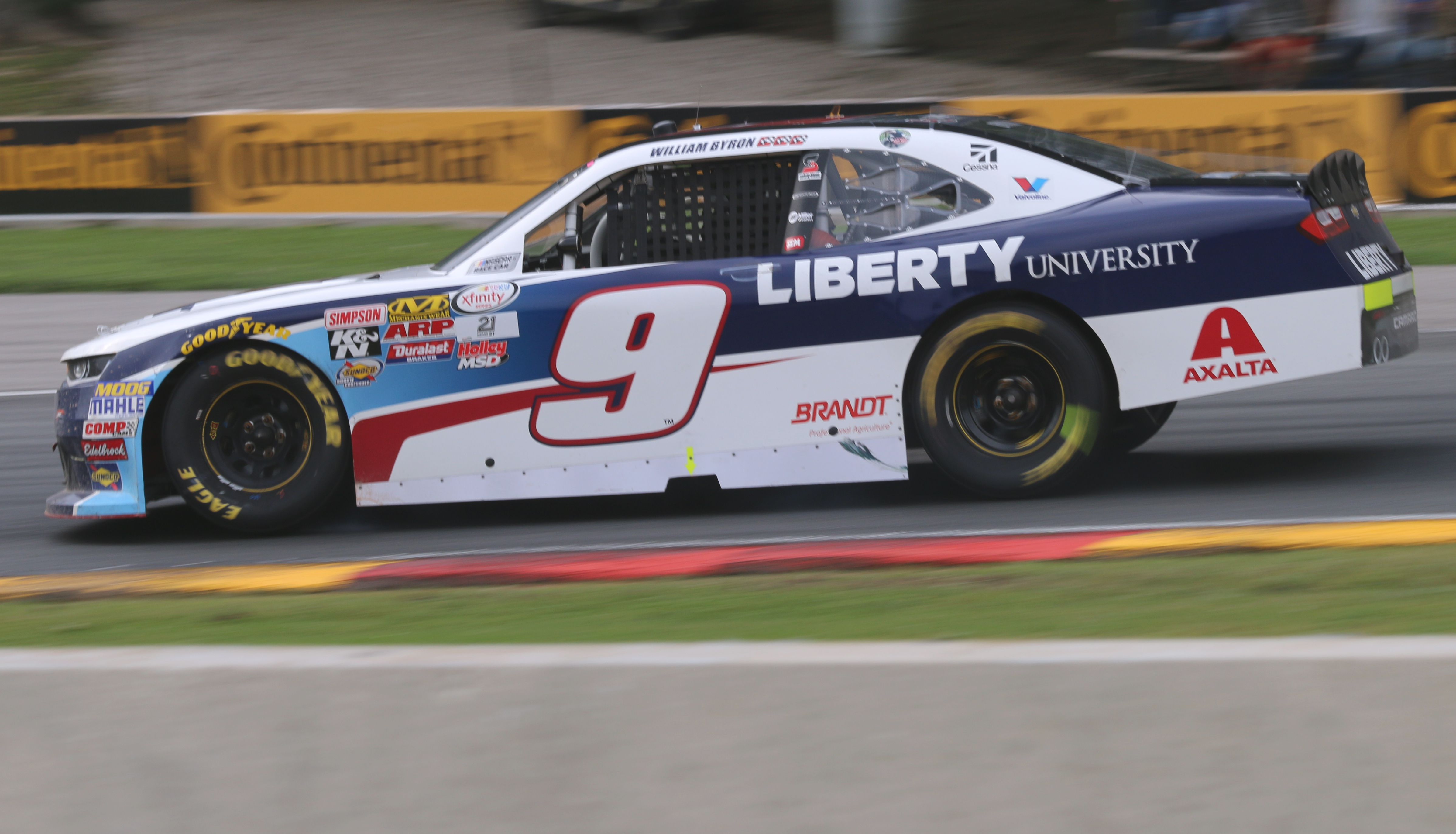 The Chevrolet Camaro of William Byron at the NASCAR Xfinity Series Johnsonville 180.